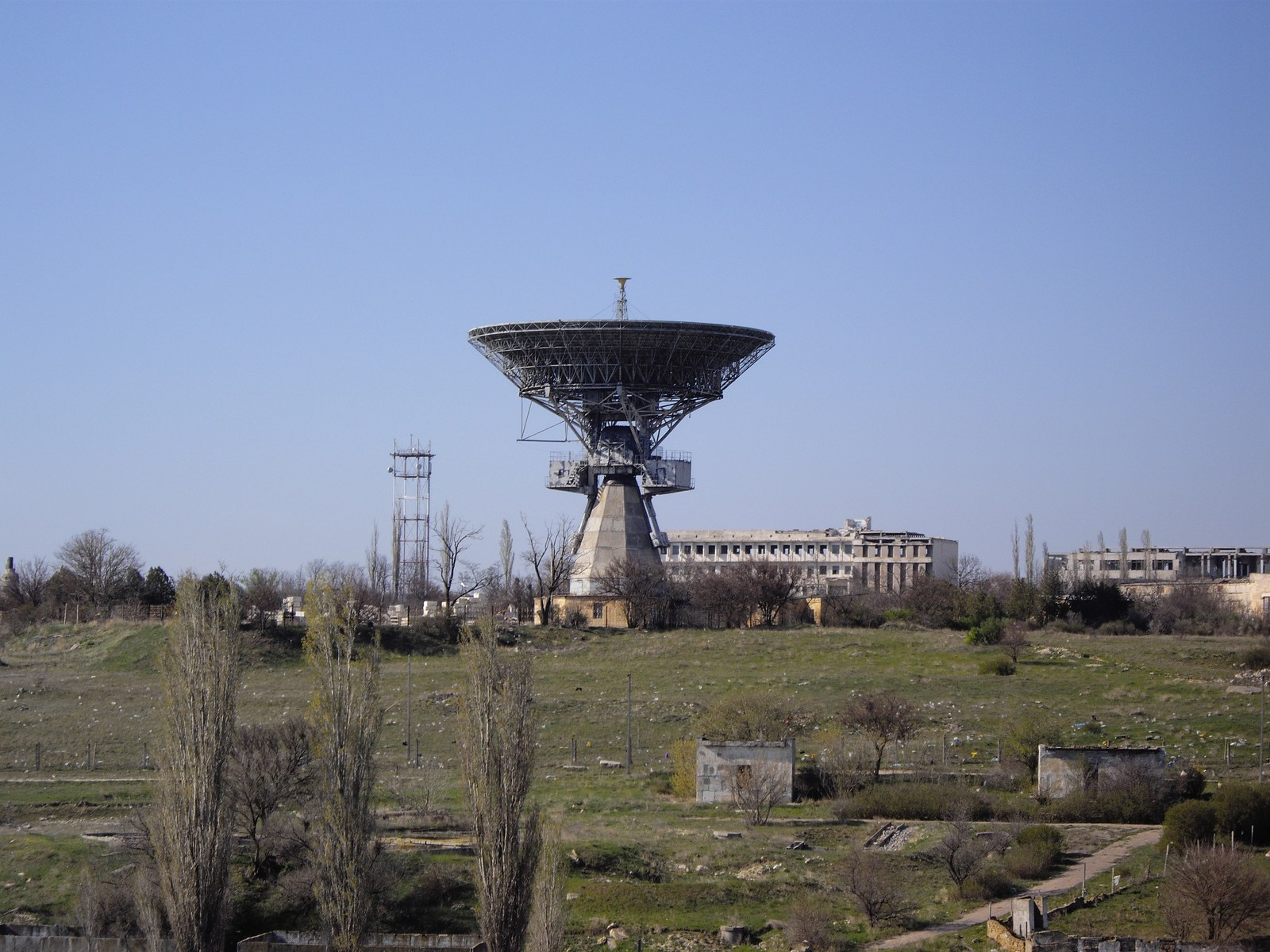 This component is located in the southern portion of the main operations area. It consists of a 105-foot tracking dish mounted on an azimuth/elevation pedestal, a large U-shaped control building, control/support buildings, and several small support buildings. Adjacent to the antenna and on two sides arc rosette patterns of devices/structures which are used when the dish has been lowered for maintenance or modification. A crane used to lower and erect the dish is present on the latest coverage. A 105-foot dish antenna such as this one would permit communications and telemetry reception at lunar distances. The antenna is operational. (CIA report "Simferopol Space Flight Center". June 1969 )